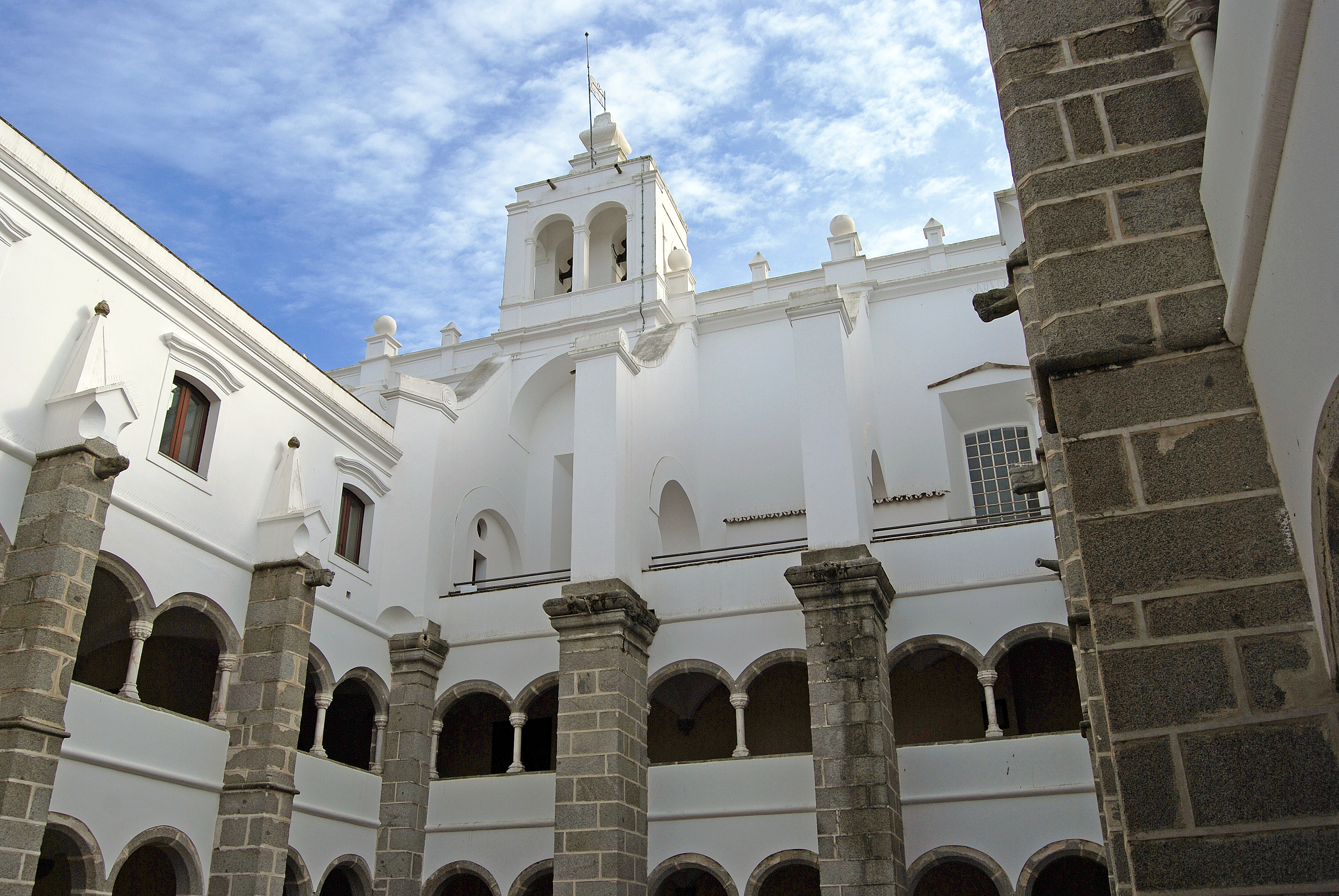 The Convent of Nossa Senhora do Espinheiro is a former monastery of the Order of St. Jerome located two kilometers from the Old Town of Évora. It dates back to the fifteenth century, and today it is a hotel as well as a UNESCO World Heritage Site. In 1458, given the importance of the site as a destination for pilgrimages, a church and monastery was founded, and received the attention of many rulers throughout Portugal’s history. With the closing of the religious order in 1834, the convent was unoccupied, going to the possession of the Portuguese State and later sold. It fell into disrepair until it was acquired by Manuel Gabriel Lopes, who restored the property. Today, the Church of Our Lady of Espinheiro remains an integral part of the hotel.